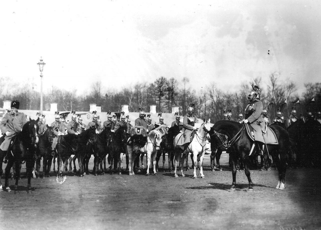 Parade of Leib Guard Horse Regiment. Left - the commander of the Guards Corps, General V. N. Danilov, right - the commander of the regiment General Khan Nakhichevanski.